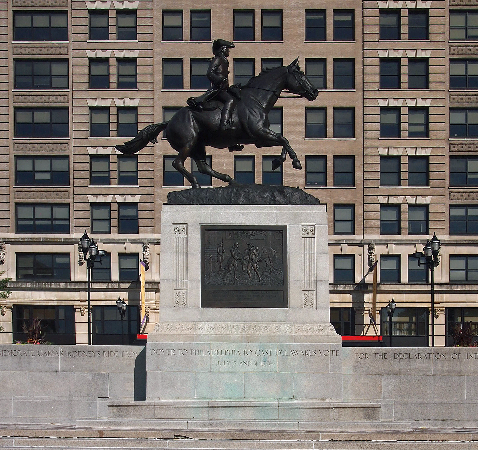 Caesar Rodney Statue, Rodney Square, Wilmington, Delaware, USA. Viewed from the southwest. A contributing property to the Rodney Square Historic District.